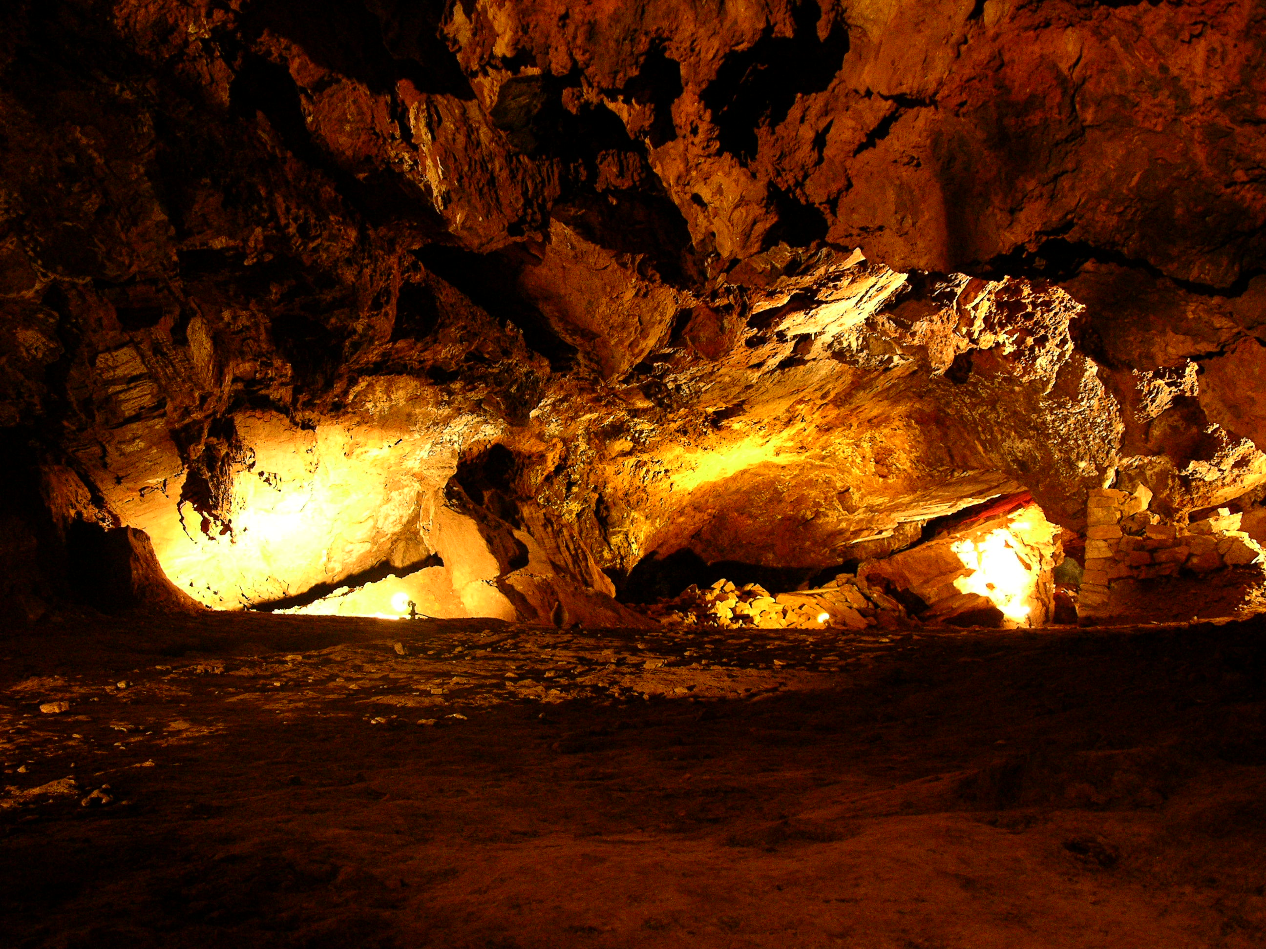 Katafiki Cave (at Fires, Driopida, Kythnos, Cyclades, Greece)